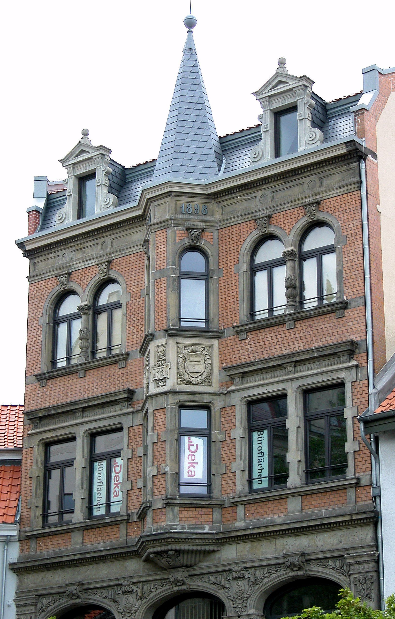 Brunswick, Germany: House on the Coal Market.